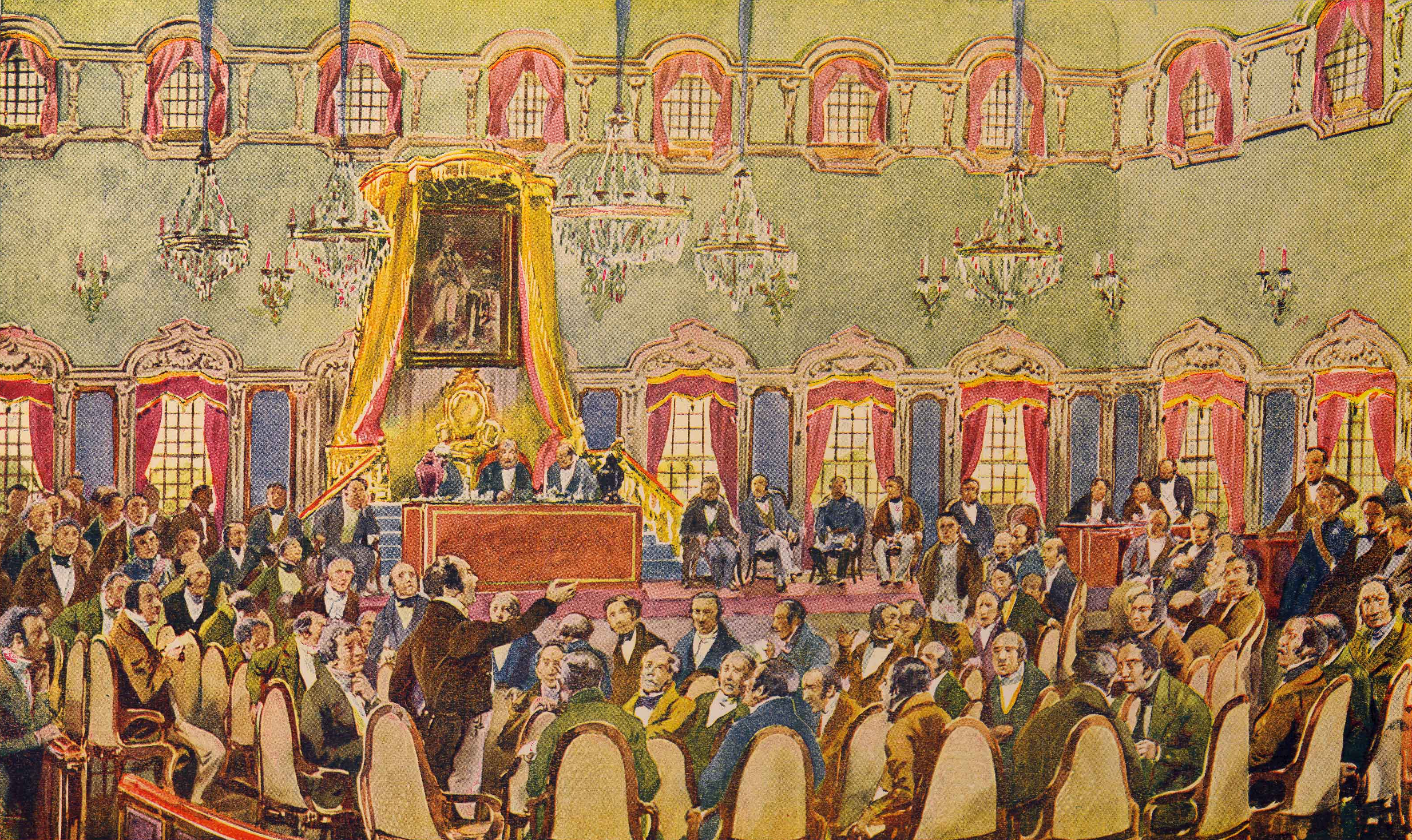 "The 1820 Constituent Courts", by Roque Gameiro, in Quadros da História de Portugal ("Pictures of the History of Portugal", 1917).